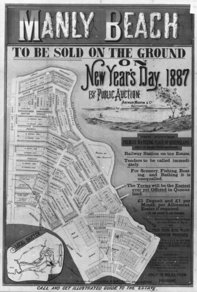 Estate map of Manly Beach, Manly,1887. Map shows a plan of all blocks for sale in the Manly Estate, bounded by Gordon Parade, Mountjoy Terrace, The Espalande, Ernest Street and Spring Street. The auction was for New Year's Day 1887 and the auctioneers were Arthur Martin & Co. Many blocks front on to Moreton Bay and Waterloo Bay.